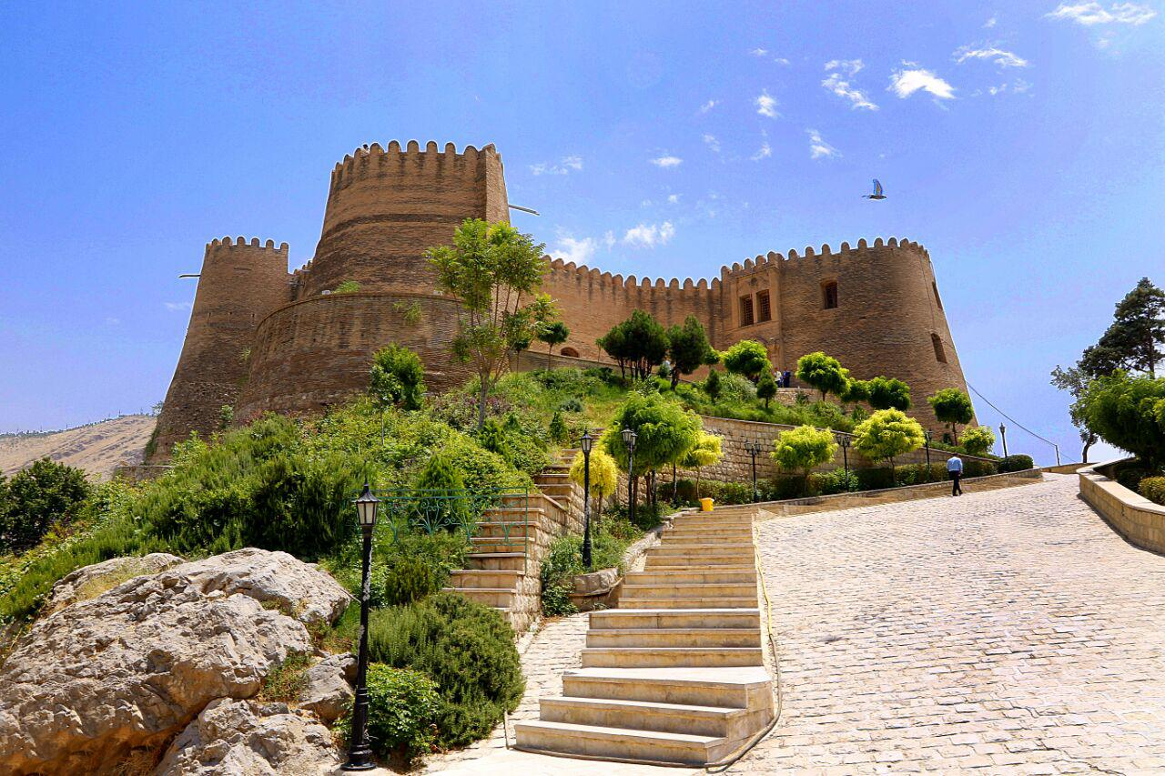 Falak-ol-Aflak Castle (in Persian: دژ شاپورخواست Dež-e Shāpūr-Khwāst, in ancient times known as Dežbār as well as Shāpūr-Khwāst) is a castle situated on the top of a large hill with the same name within the city of Khorramabad, the regional capital of Lorestan province, Iran. This gigantic structure was built during the Sassanid era (224–651).